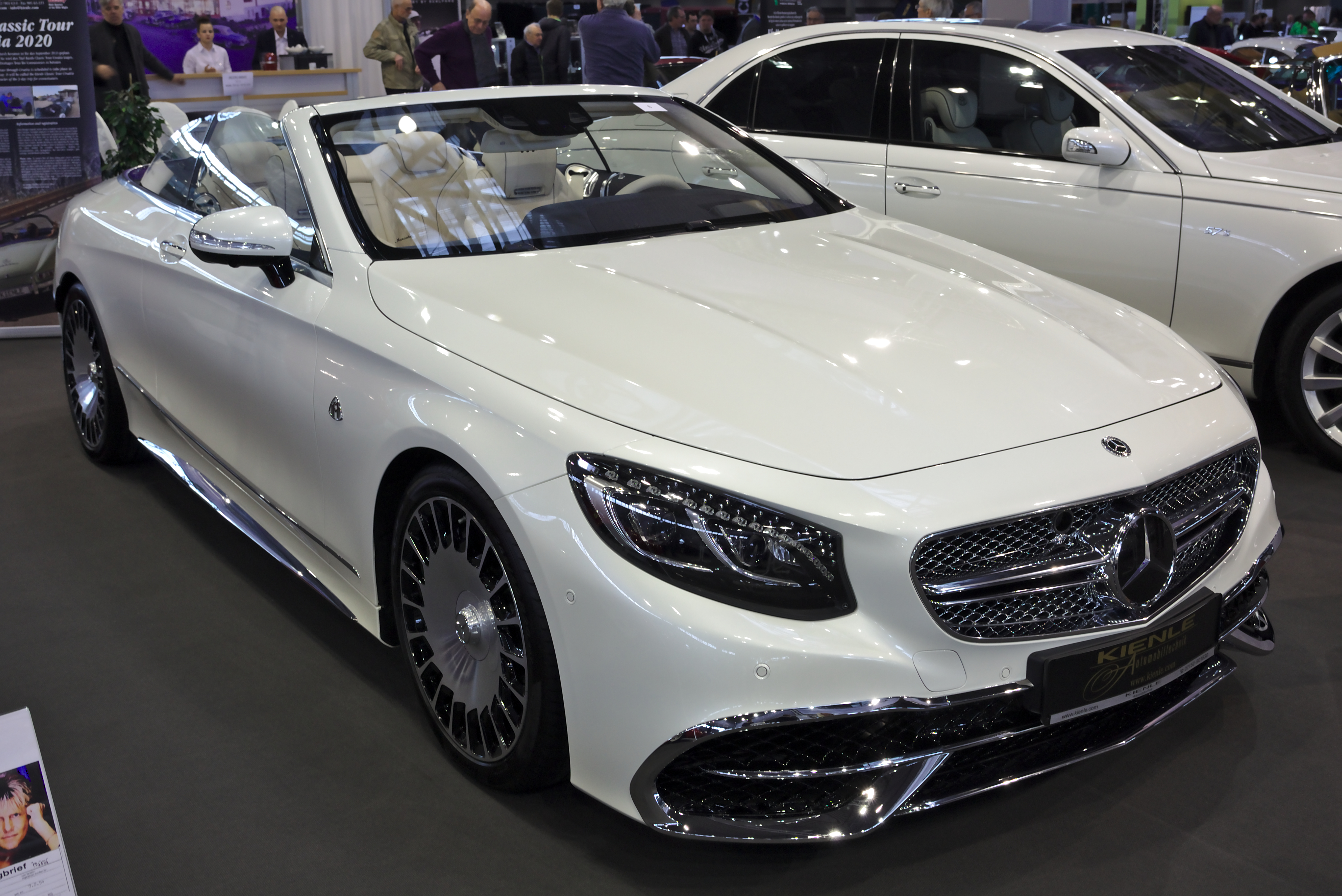 Mercedes-Maybach S 650 Cabriolet at Retro Classics 2019